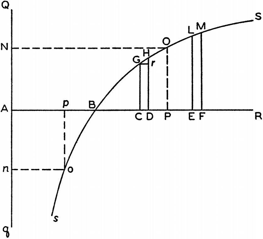 $7. Therefore, let AB represent the quantity of goods initially possessed. Then after extending AB, a curve BGLS must be constructed, whose ordinates CG, DH, EL, FM, etc., designate utilities corresponding to the abscissas BC, BD, BE, BF, etc., designating gains in wealth. Further, let m,n, p, q, etc., be the numbers which indicate the number of ways in which gains in wealth BC, BD, BE, BF [misprinted in the original as CF], etc., can occur. Then (in accord with $4) the moral expectation of the risky proposition referred to is given by: Now, if we erect AQ perpendicular to AR, and on it measure off AN = PO, the straight line NO -AB represents the gain which may properly be expected, or the value of the risky proposition in question. If we wish, further, to know how large a stake the individual should be willing to venture on this risky proposition, our curve must be extended in the opposite direction in such a way that the abscissa Bp now represents a loss and the ordinate po represents the corresponding decline in utility. Since in a fair game the disutility to be suffered by losing must be equal to the utility to be derived by winning, we must assume that An = AN, or po = PO. Thus Bp will indicate the stake more than which persons who consider their own pecuniary status should not venture.